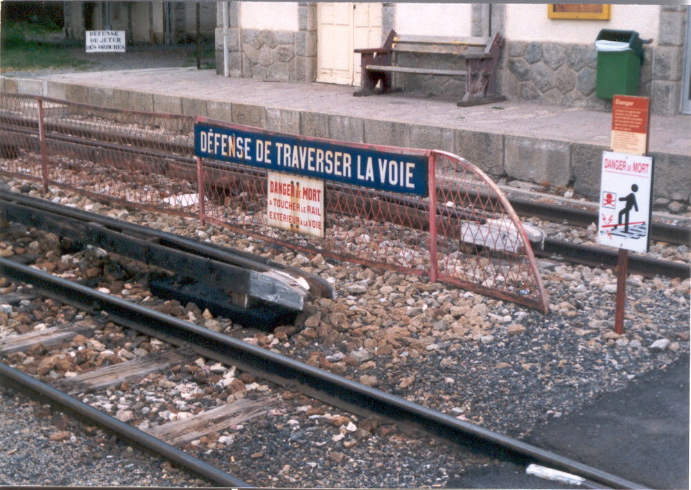 Third rail on the small gauge railway Villefranche – La Tour de Caroll on the French side of Pyrenees